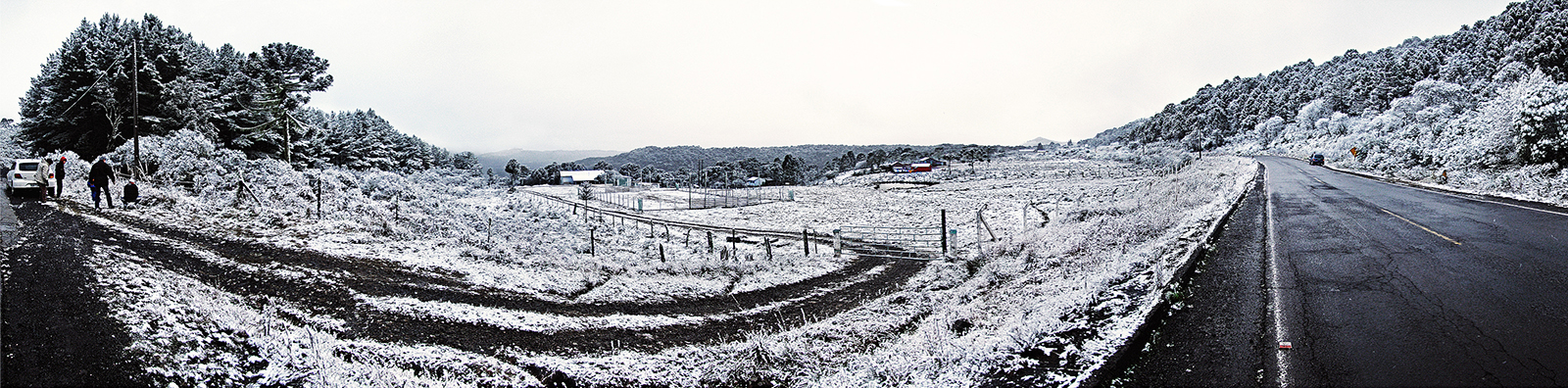 Panoramic shot of the fields covered with snow, just outside São Joaquim, in Brazil. Photo taken at 17:41 on August 4, 2010.